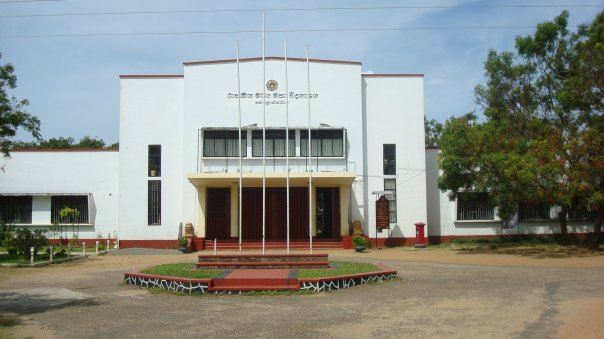 Polonnaruwa Royal College front Side